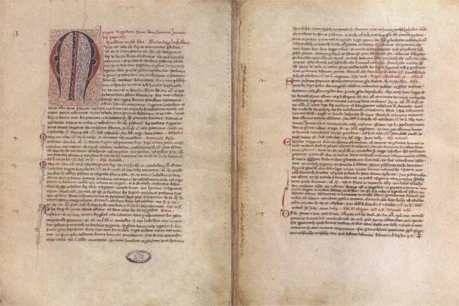 Pope Innocent IV bull regarding Lithuanian ruler Mindaugas baptism, coronation and placement Lithuania under the jurisdiction of the Holly See. Беларуская (тарашкевіца): Була Папы рымскага Інакенцыюса IV з пастановай пра хрышчэньне і каранацыю Міндоўга, а таксама пераход Літвы пад юрысдыкцыю Сьвятога Стальца.